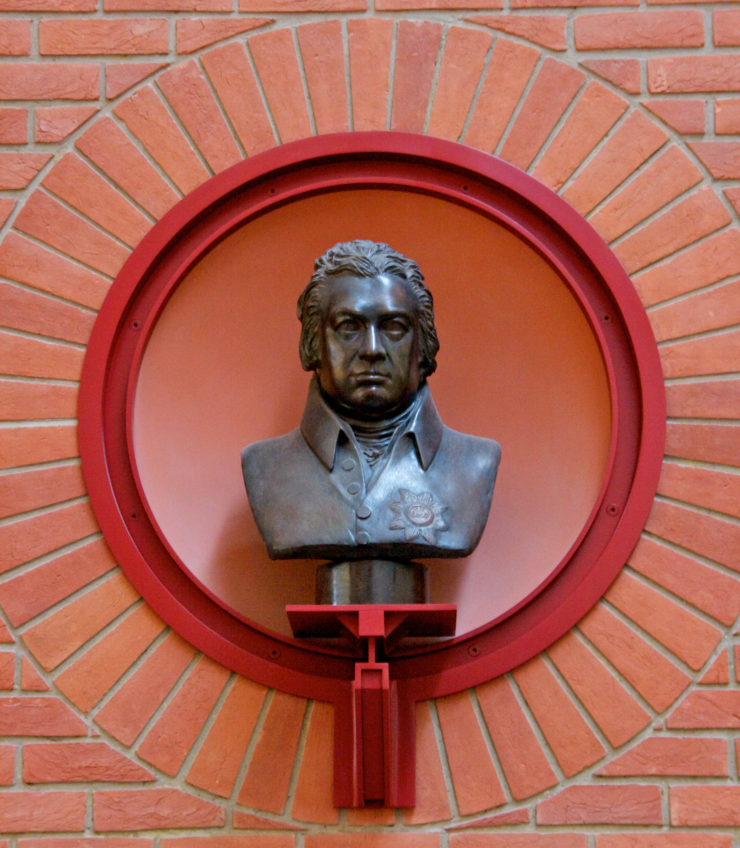 Sir Joseph Banks 1743-1820, Anne Seymour Damer. Bust on display in the British Library. Taken during the wmuk:Editathon, British Library.